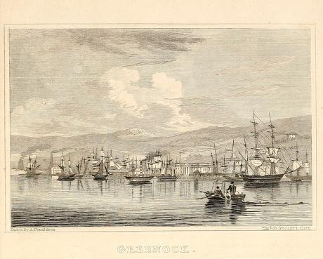 Image included in the Gazetteer of Scotland, 1838